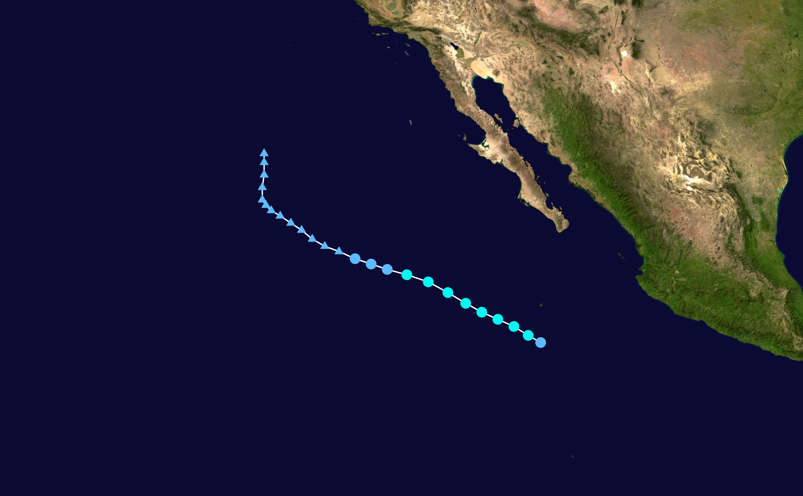 Track map of Tropical Storm Blanca of the 2009 Pacific hurricane season. The points show the location of the storm at 6-hour intervals. The colour represents the storm's maximum sustained wind speeds as classified in the Saffir–Simpson scale (see below), and the shape of the data points represent the nature of the storm, according to the legend below. Saffir–Simpson scale Tropical depression≤38 mph≤62 km/h Category 3111–129 mph178–208 km/h Tropical storm39–73 mph63–118 km/h Category 4130–156 mph209–251 km/h Category 174–95 mph119–153 km/h Category 5≥157 mph≥252 km/h Category 296–110 mph154–177 km/h Unknown Storm type Tropical cyclone Subtropical cyclone Extratropical cyclone / Remnant low / Tropical disturbance / Monsoon depression